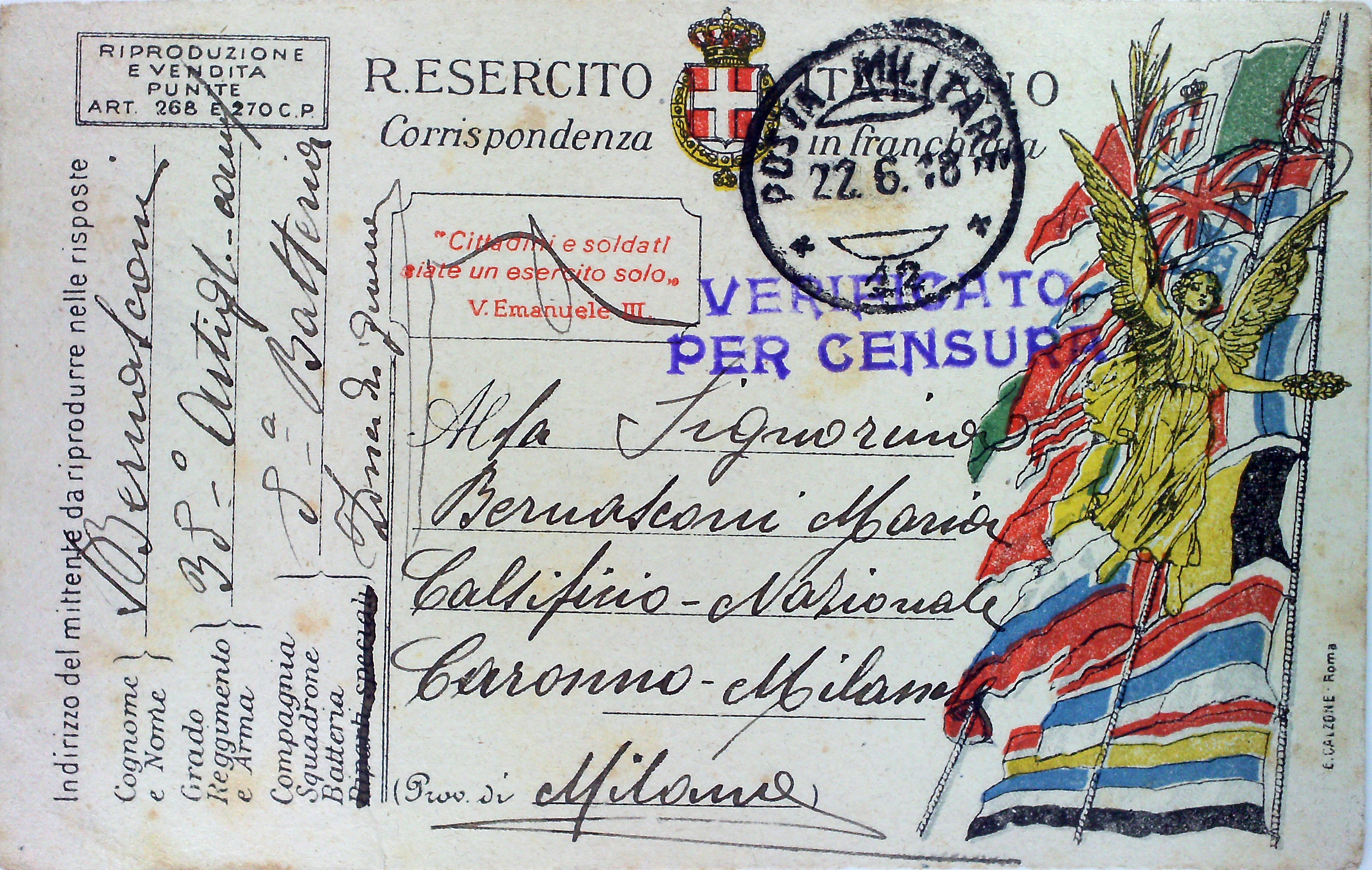 Postcard from the Italian front of World War I - circa 1917. scan by User:bramfab of a family document.